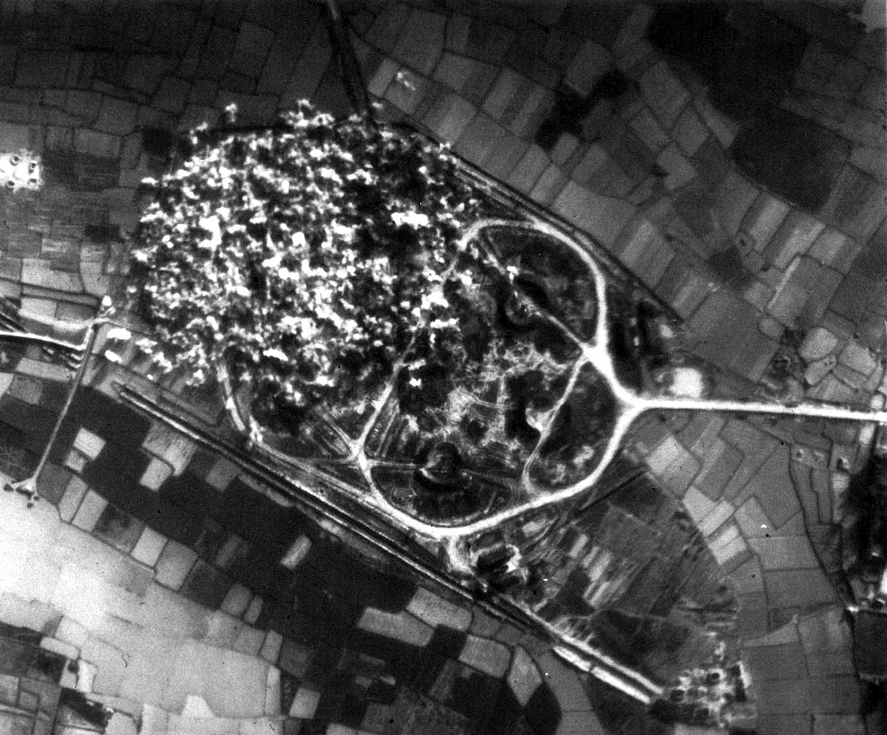 One half of a SA-2 site being blanketed by cluster bombs from F-105 Thud Wild Weasels.